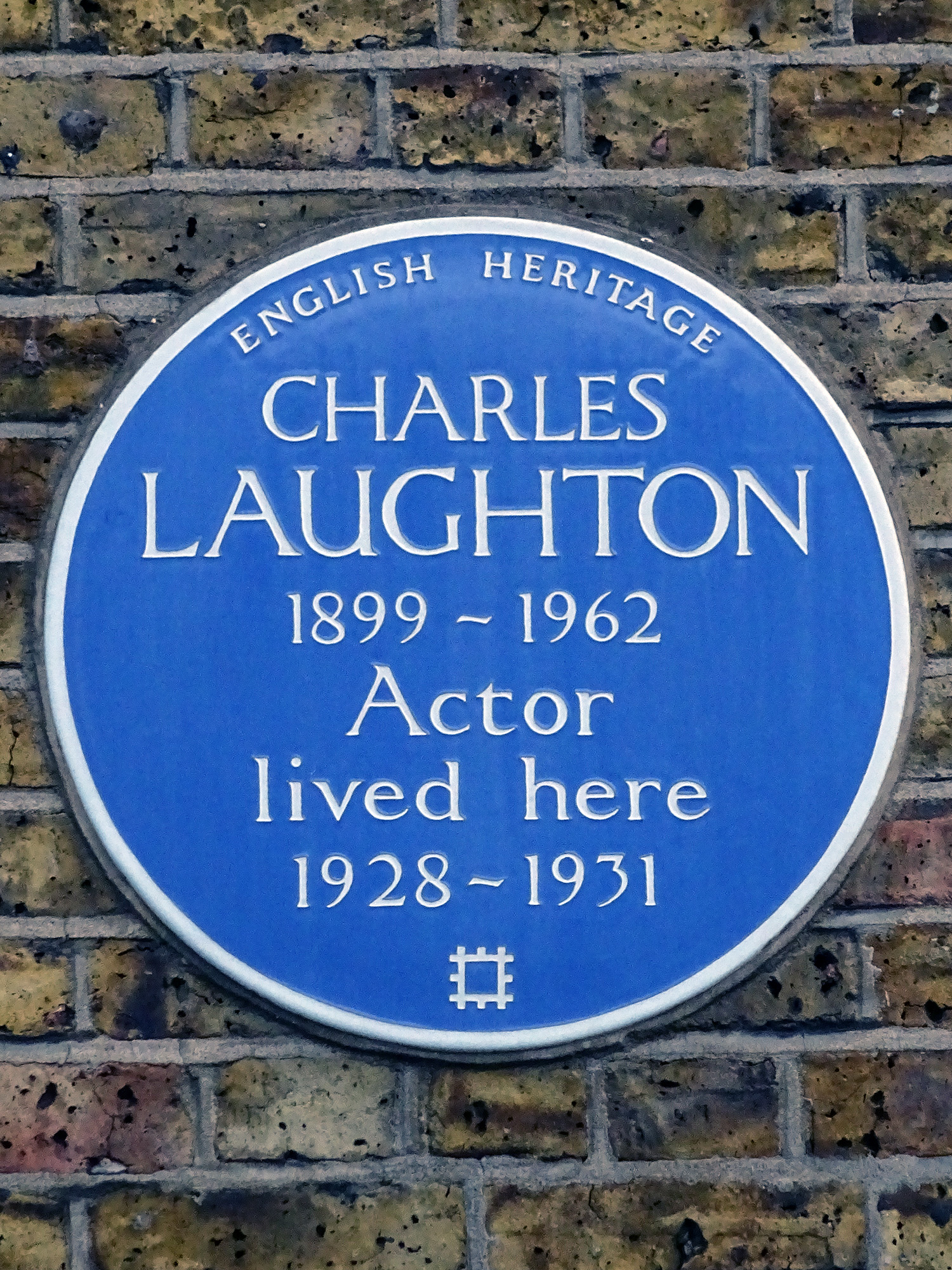 Blue plaque erected in 1992 by English Heritage at 15 Percy Street, Fitzrovia, London W1T 1DU, London Borough of Camden